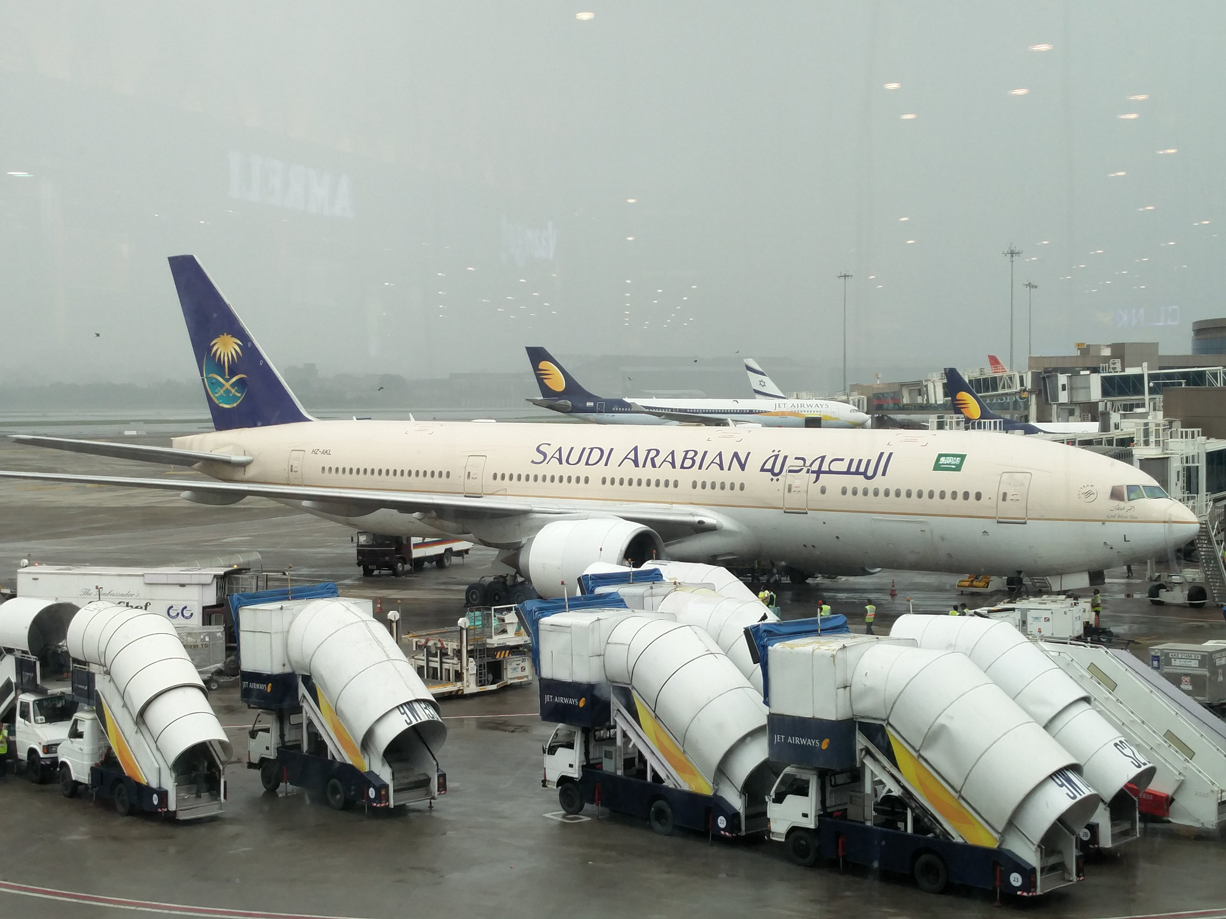 Saudi Arabian Airlines Boeing 777 aircraft (registration number HZ-AKL) parked at gate at Mumbai Chhatrapati Shivaji International Airport